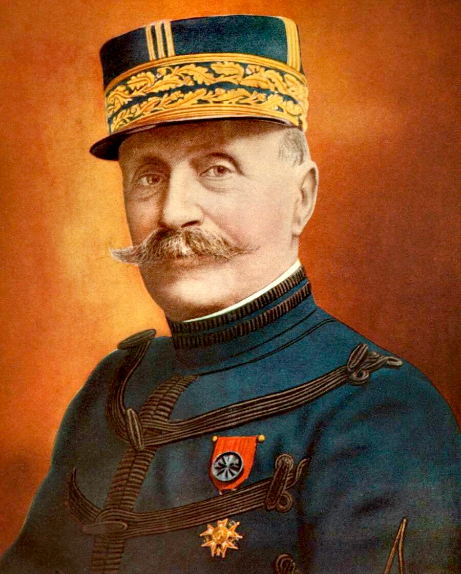 Hand-colored photograph of French General Ferdinand Foch